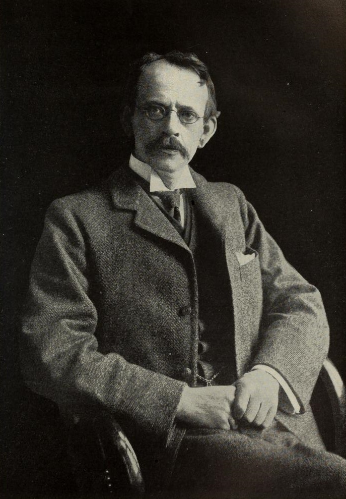 Portrait of Joseph John Thomson